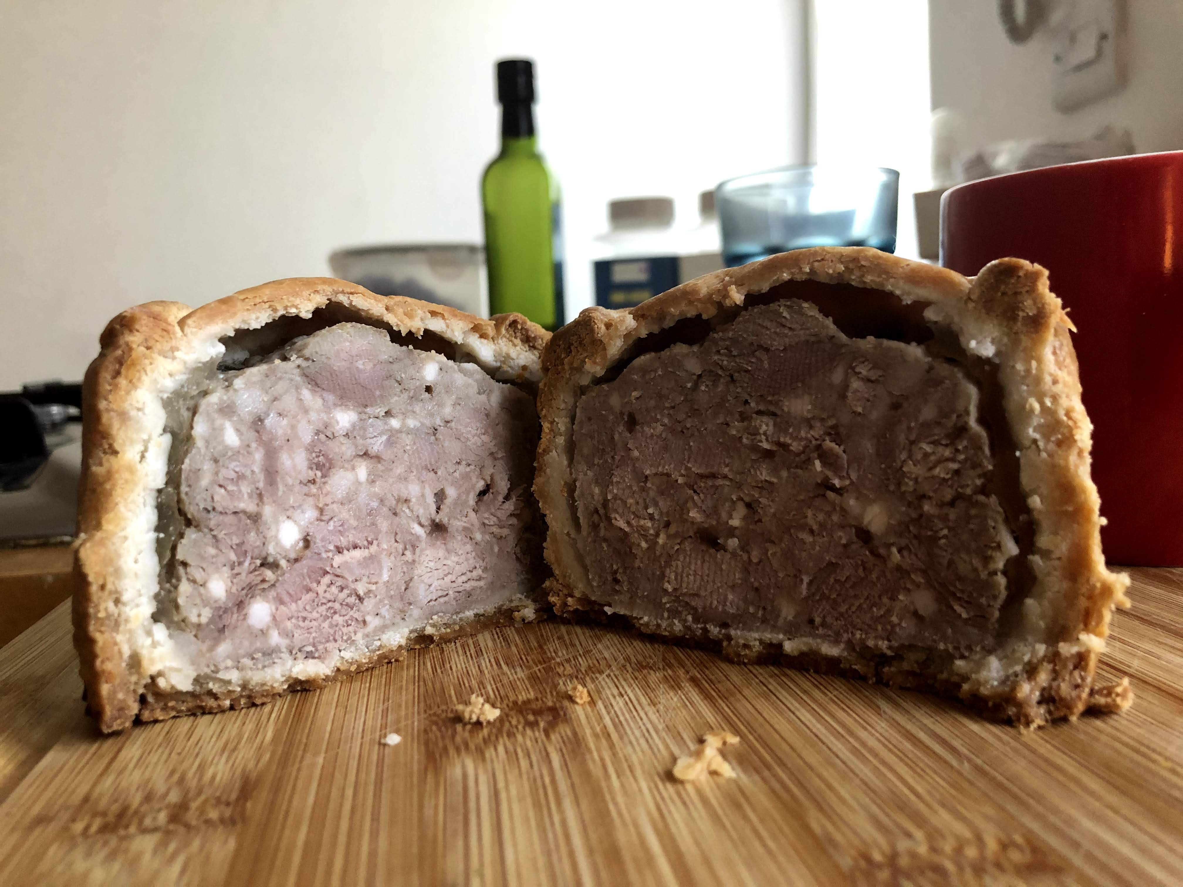 The pie was bought from the Sainsburys Supermarket or the local market. The picture was taken with iPhone X.